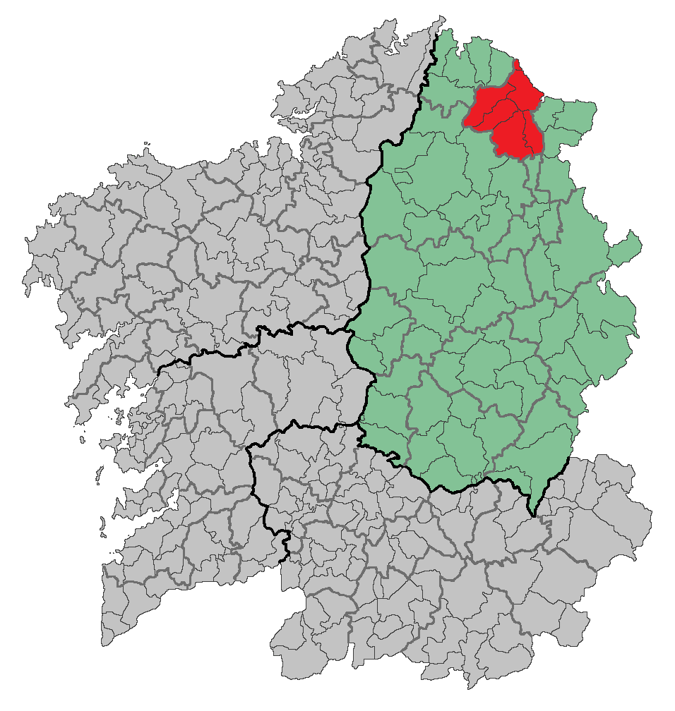 Region of Galicia (Spain) Based in: Image:Location of Betanzos.png Source: Designed by Leoplus. Original picture, designed by Caiser over a work made by Alyssalover.